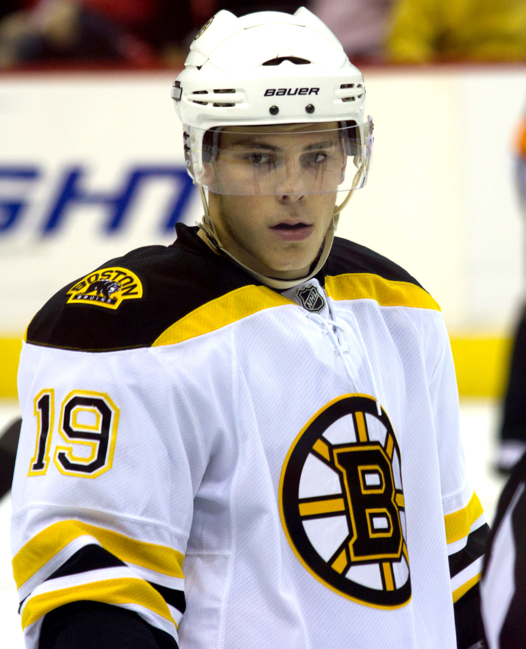 Tyler Seguin /19 Taken on November 5, 2010 Canon EOS REBEL T2i Bruins vs. Caps (Set: 27) This photo also appears in sarah_connors' photostream (3,556) Tags: tyler seguin Boston Bruins NHL hockey icehockey